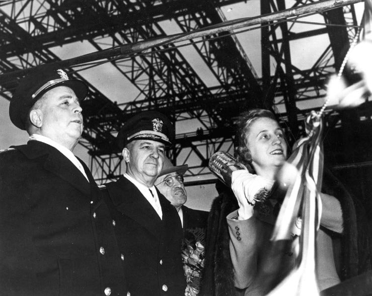 Photo #: 80-G-44891 USS Missouri (BB-63) Miss Margaret Truman, Missouri's Sponsor, ready to christen the ship, during launching ceremonies at the New York Navy Yard, 29 January 1944. Looking on are (left to right): Rear Admiral Monroe R. Kelly, New York Navy Yard Commandant; Rear Admiral Sherman S. Kennedy, USN, and Senator Harry S. Truman of Missouri, the Sponsor's father